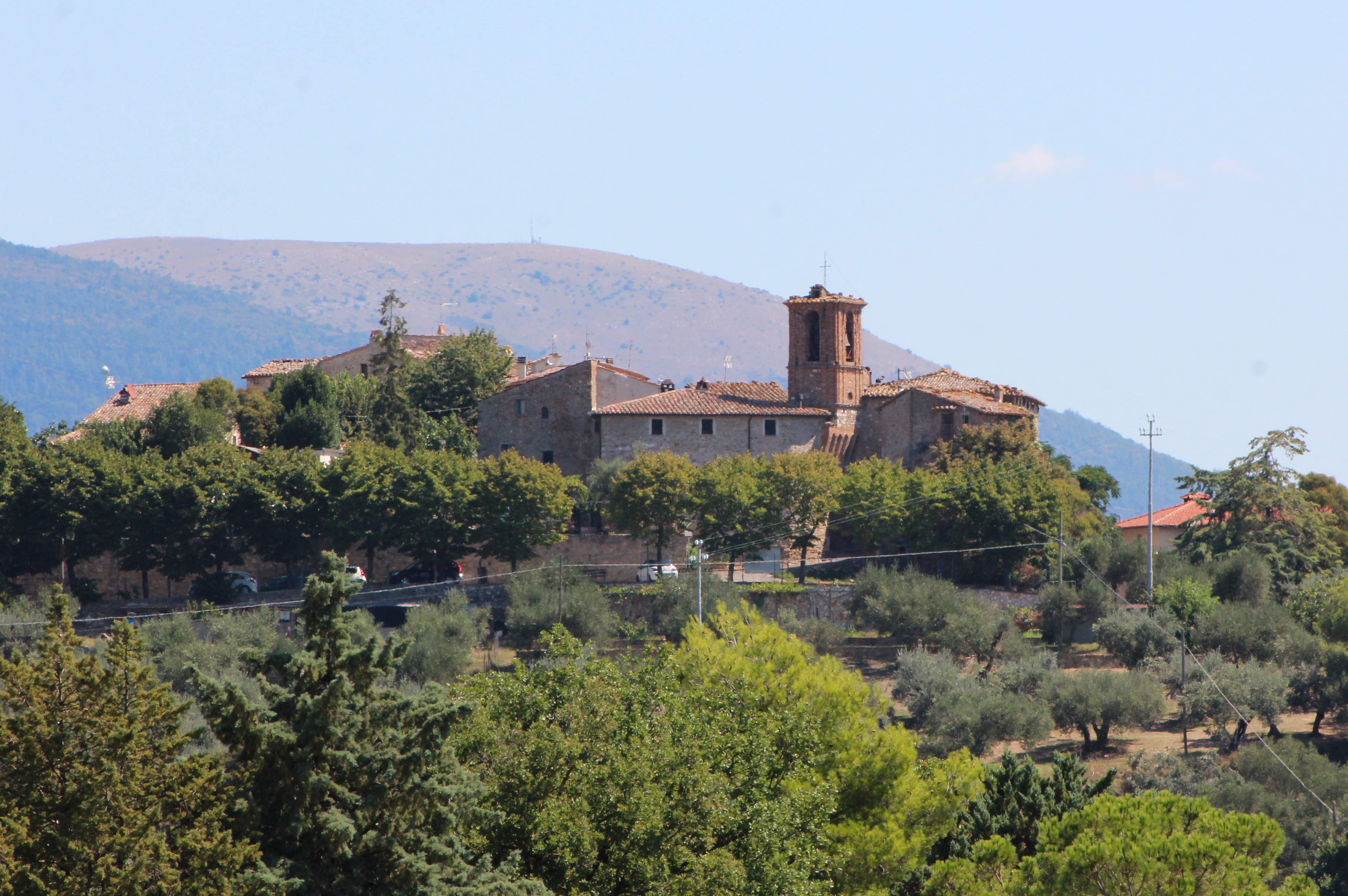 Antria, hamlet of Magione, Province of Perugia, Umbria, Italy